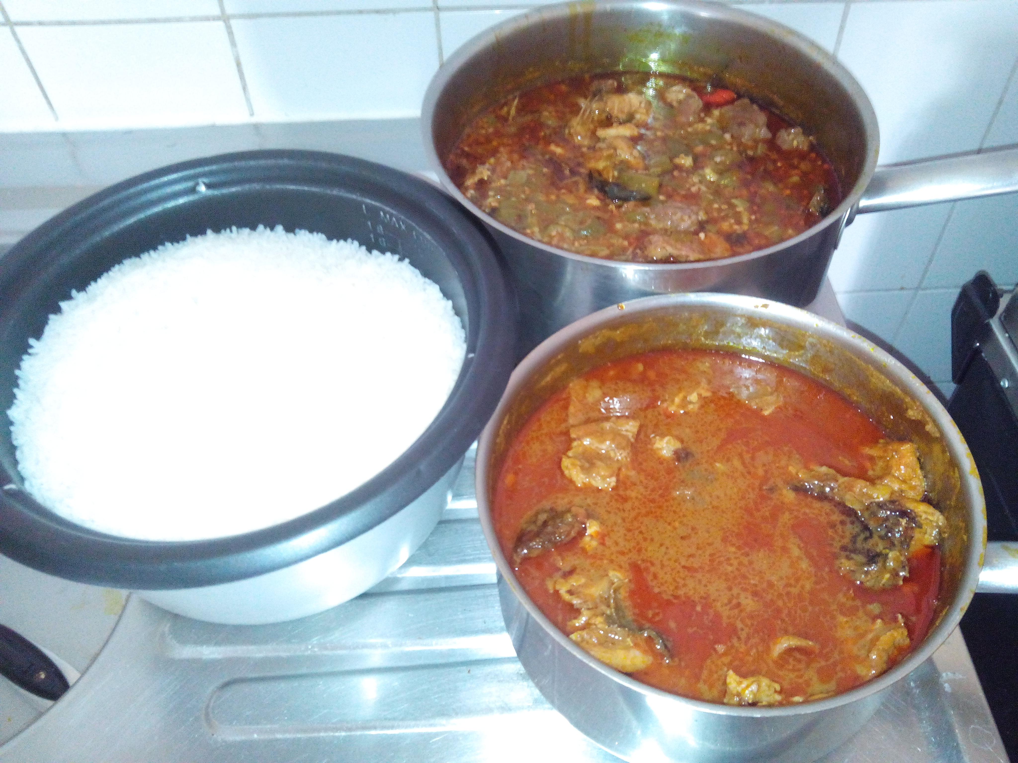 This is an image of food from Ivory Coast